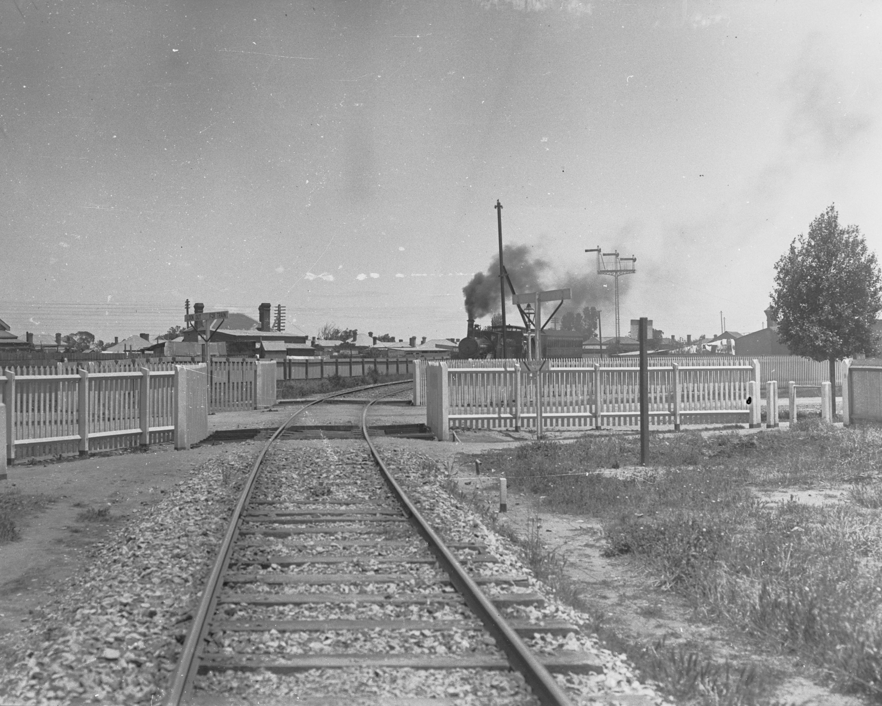 Crossing on the Dry Creek Railway Line, Port Adelaide, South Australia, c. 1905. The Dry Creek to Port Adelaide railway opened on 1 February 1868. Its original purpose was to allow goods and minerals from South Australia's mid-north and the River Murray (at Morgan) to reach the Port without needing to travel via Adelaide. This line ran directly into Port Dock station (now closed) which was Port Adelaide's main rail yard in the 19th century. reference Wikipedia